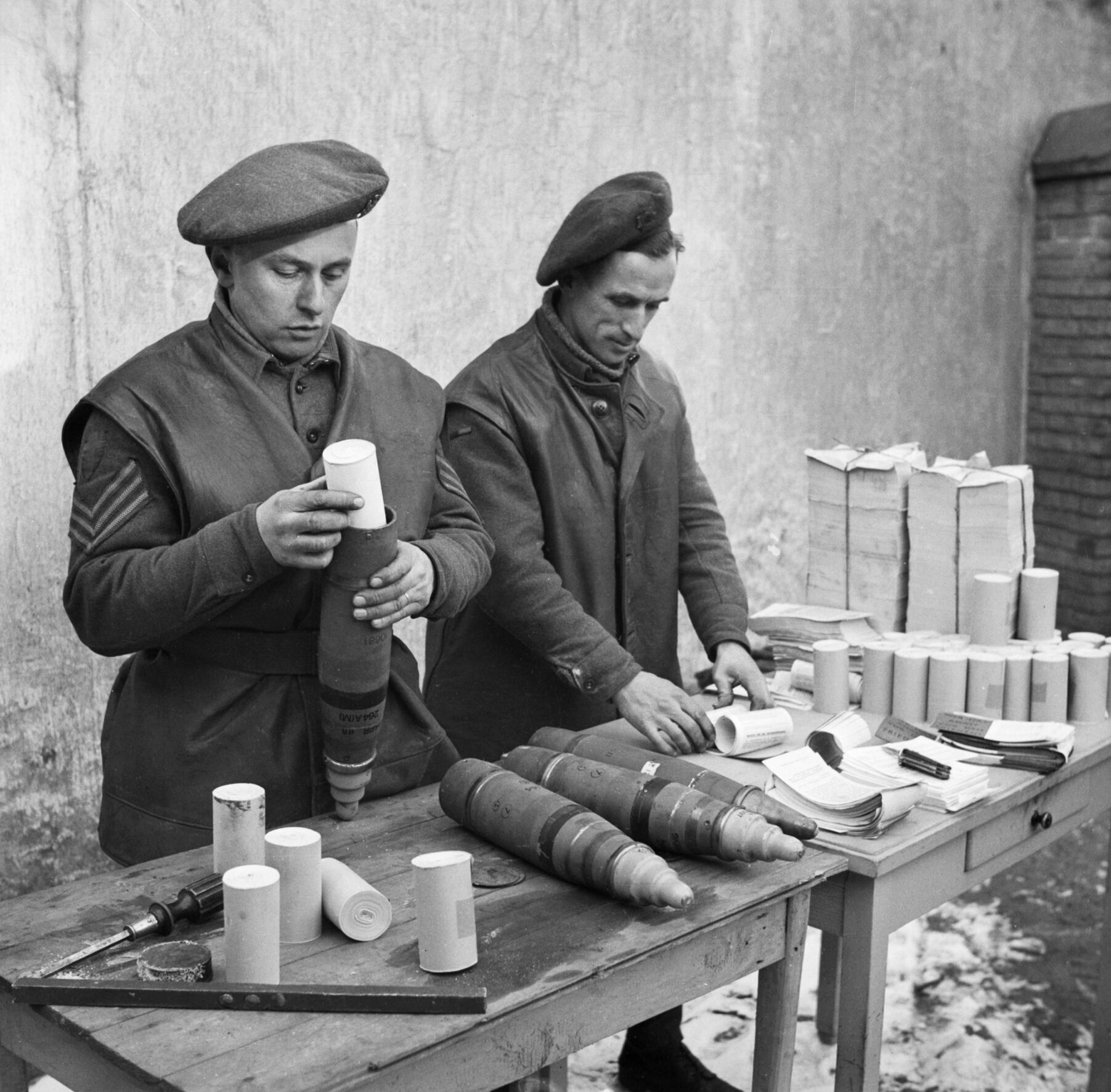 Gunners of 'E' Troop, 124 Battery, 151st Field Regiment filling 25-pdr shells with propaganda leaflets, Roermond, Holland, 24 January 1945. Gunners of 'E' Troop, 124 Battery, 151st Field Regiment filling 25-pdr shells with propaganda leaflets, Roermond, 24 January 1945.